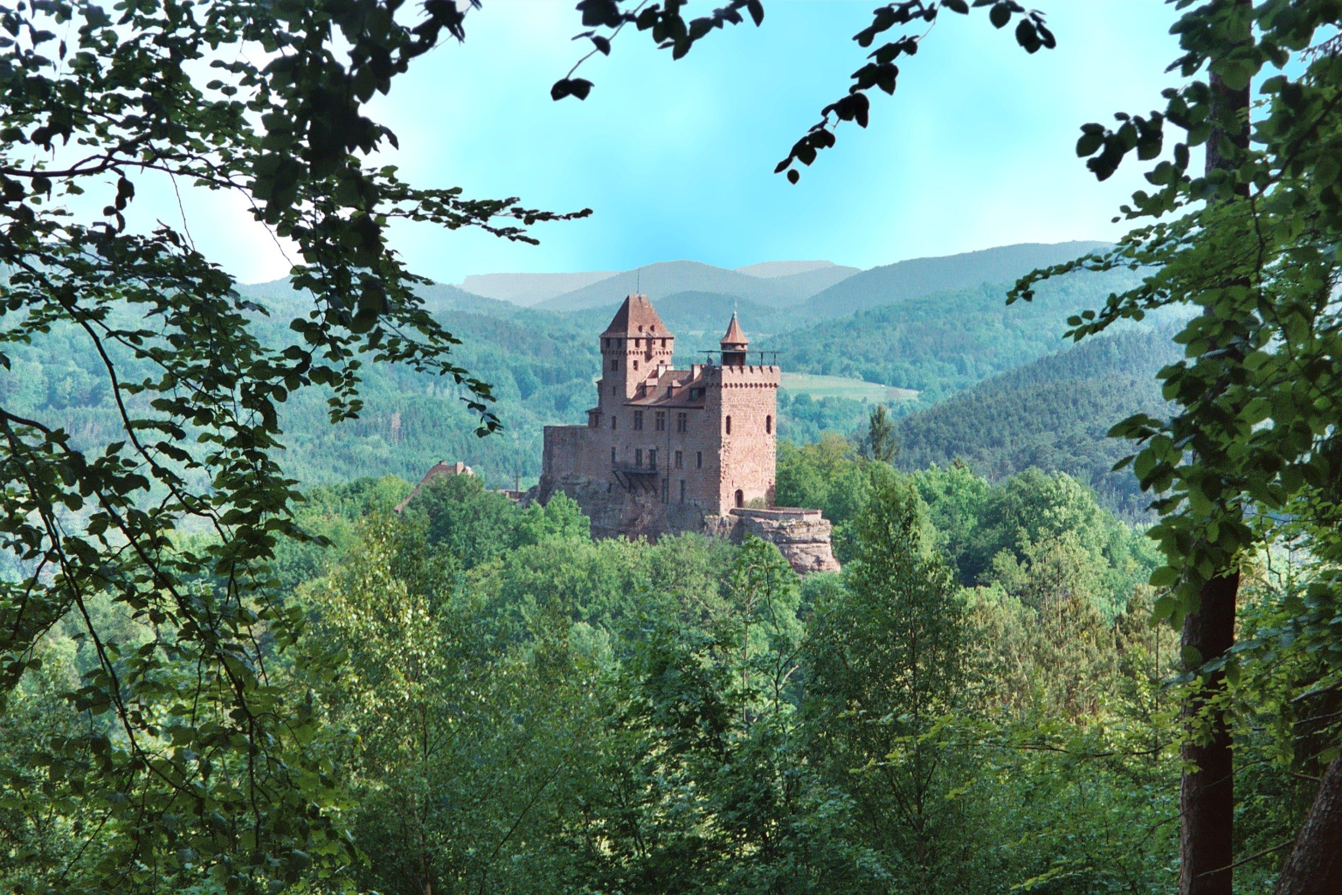 Berwartstein (Erlenbach bei Dahn), view from "Klein-Frankreich" to the castle